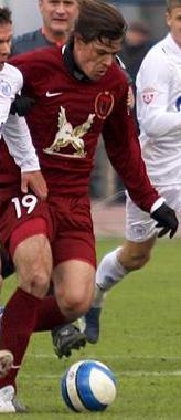 Savo Milošević